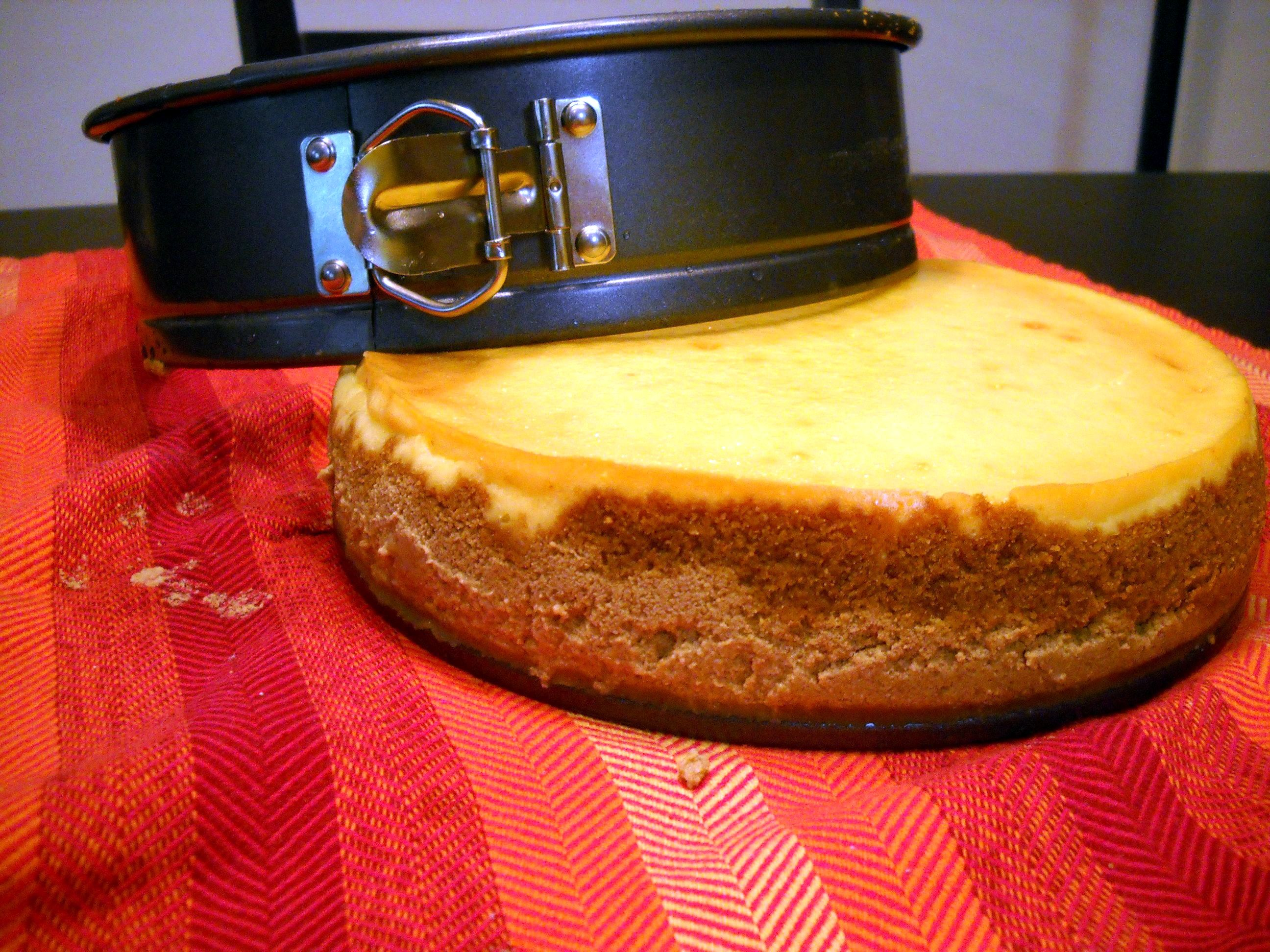 Springform Pan with the walls loosened from the finished product.